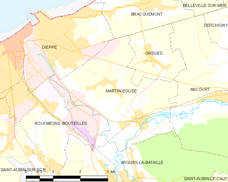 Map of French municipality Martin-Église